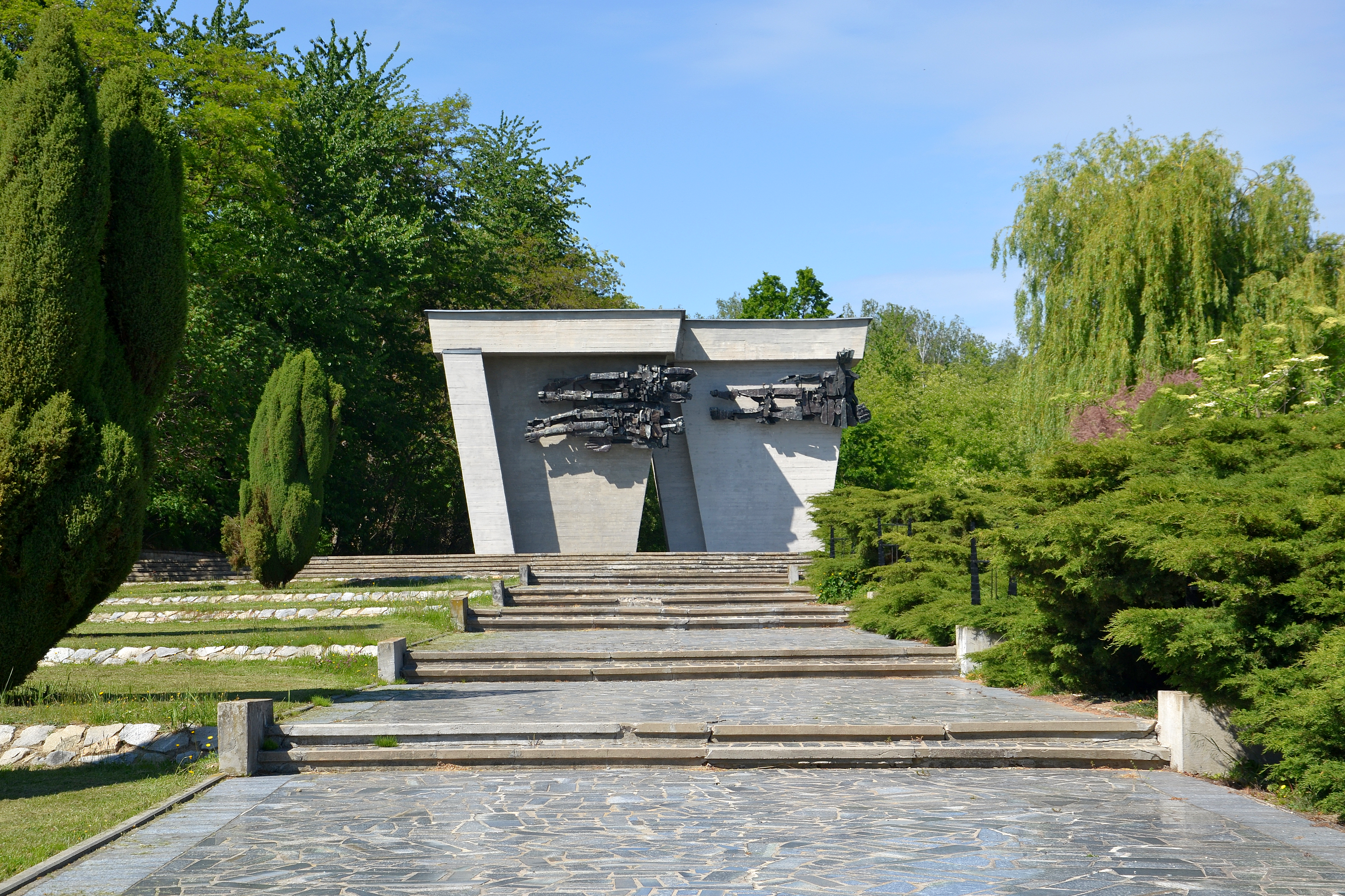 The Monument of Martyrdom of Prisoners-of-War in Camp Lamsdorf, Silesia, Poland